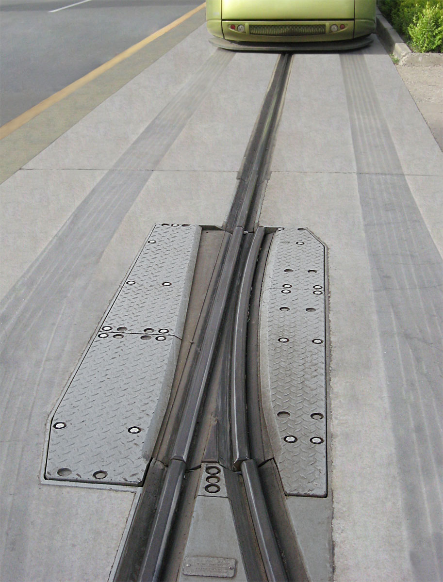 This a point, used for the Translohr, tramway on tires